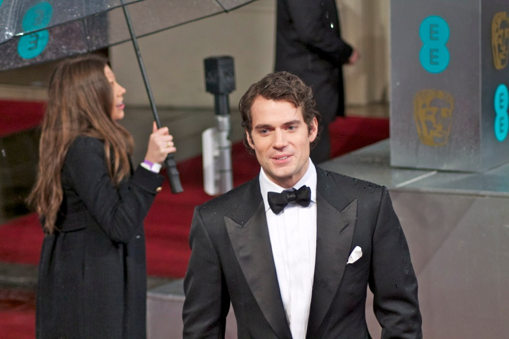 Henry Cavill